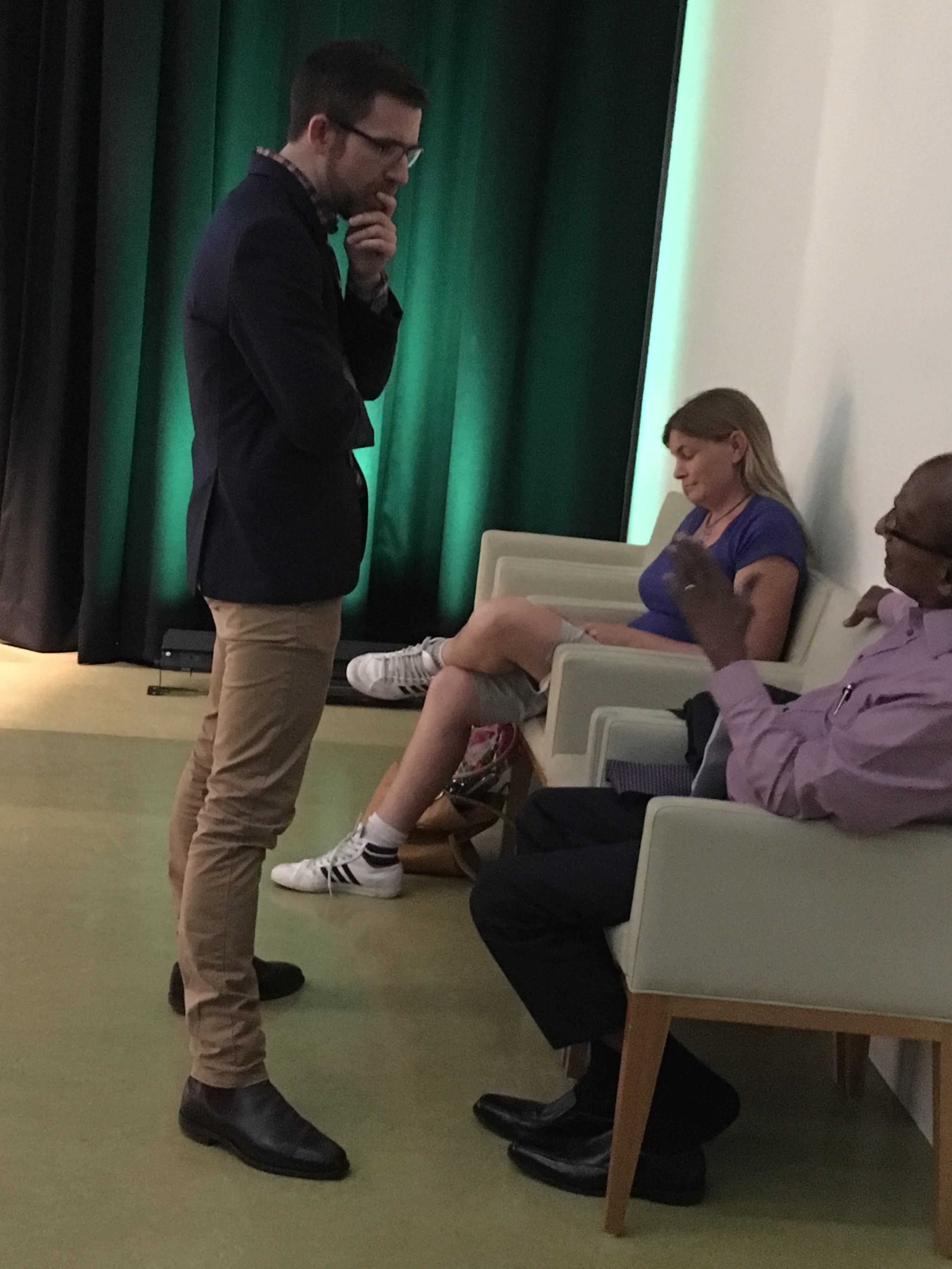 Craig Zonca (left, standing) at State Library of Queensland, 2018